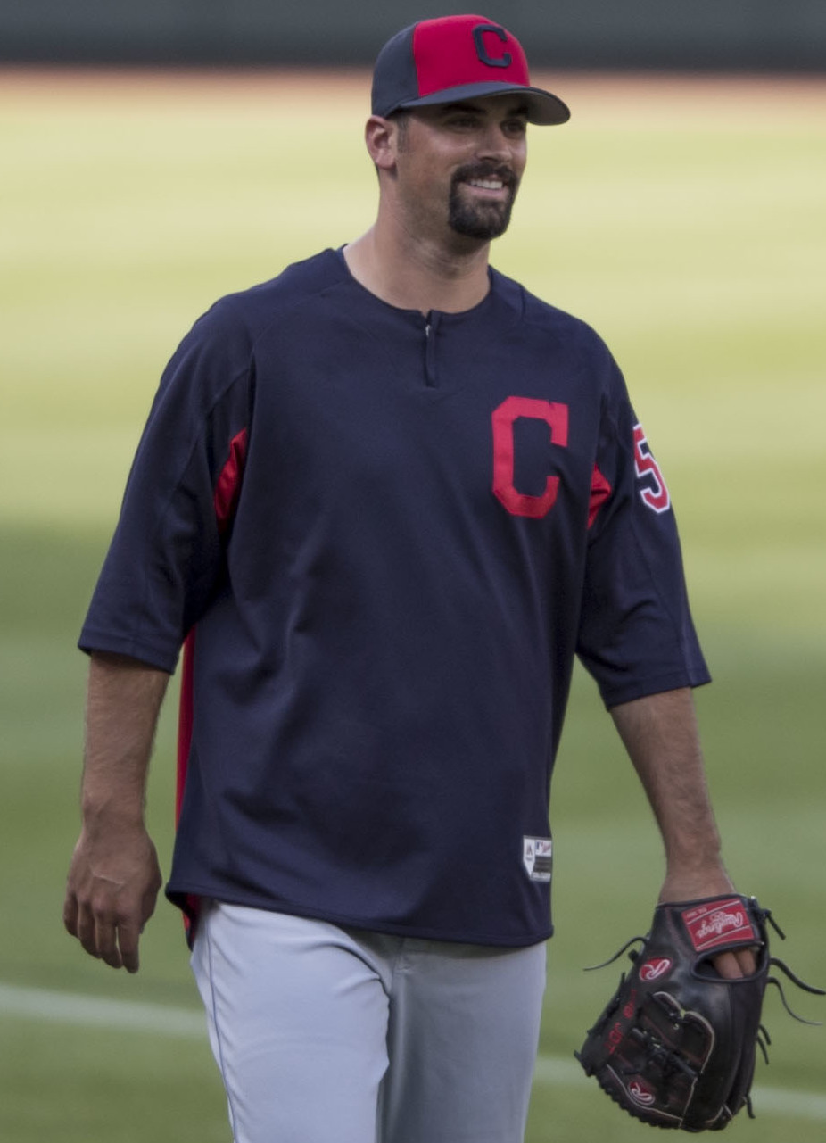 Three pitcher with the Cleveland Indians before a 2017 game at Camden Yards in Baltimore. Dan Otero is at left and Cody Allen is at right. Shawn Armstrong may be in the center.